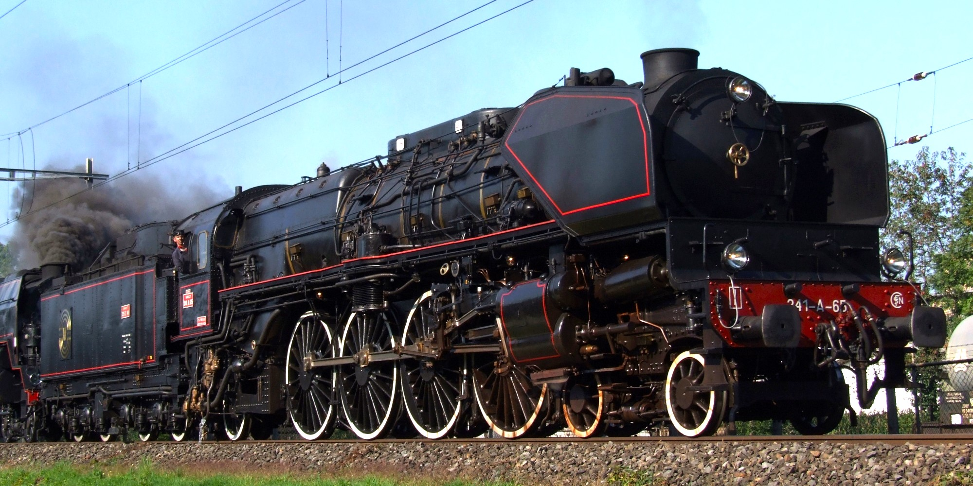 Special trip on 19/09/2010, the two Superlok the largest hand-fired steam locomotives in Europe SNCF 241.A.65 & 241.P.17 from Basel to Schaffhausen. Image of the 241.A.65 Extract from the technical data of the machines: A 65 241 steam locomotive built in 1931 Total Running Order: 200 t Maximum speed 110 km/h Power measured at the rim 3500 hp Driving wheel diameter 1950 mm Length of the locomotive with tender: 25.960 m Boiler pressure 18.0 bar